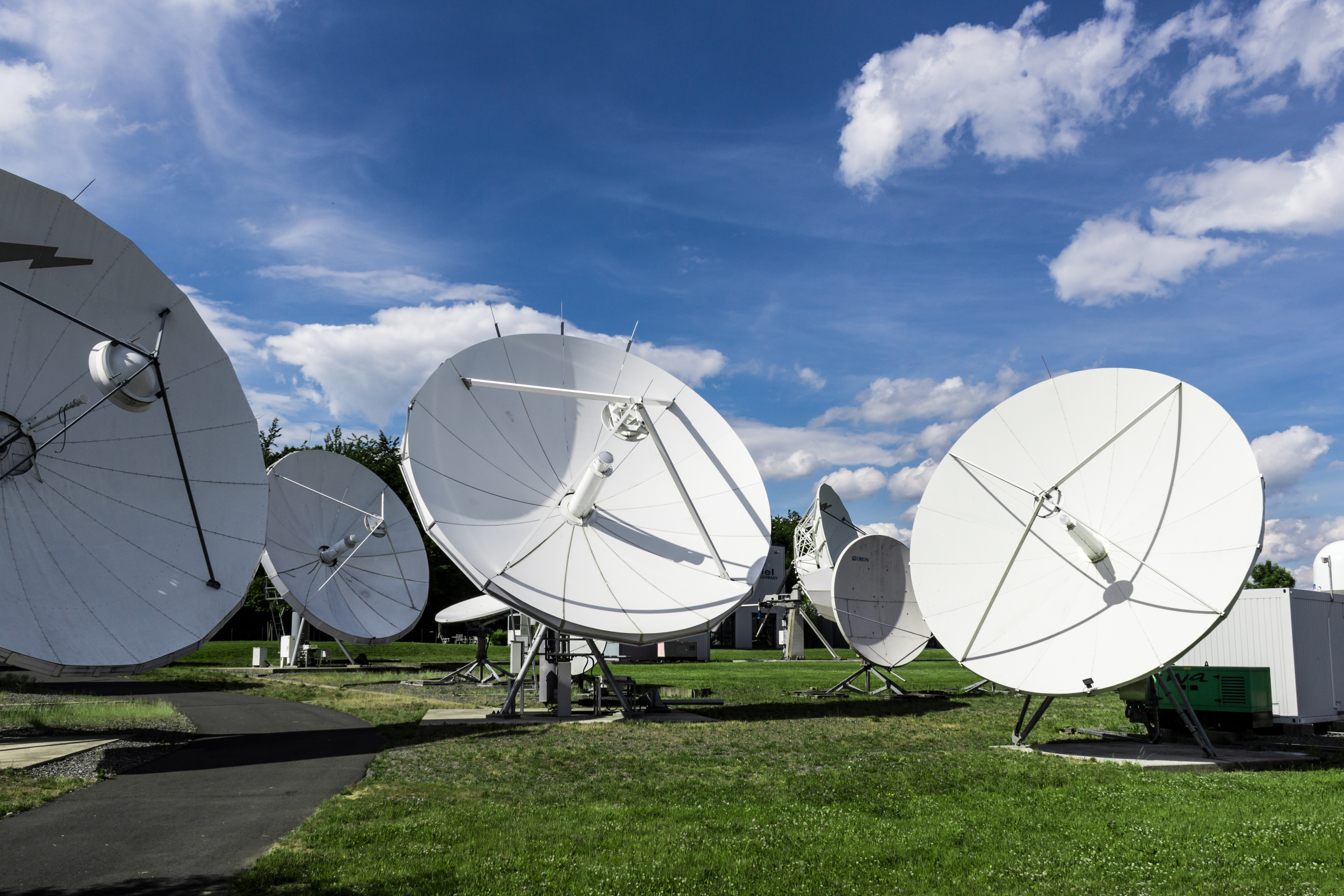 Antenas de satélite.